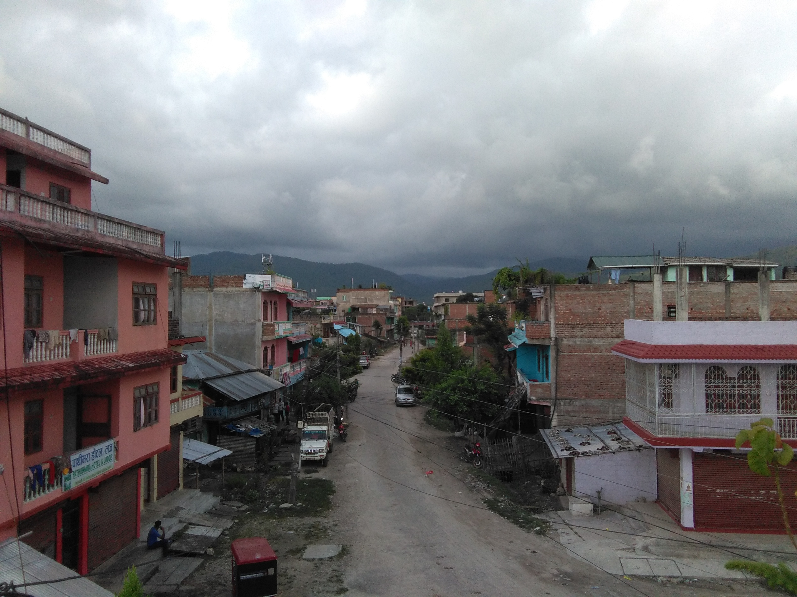 A view of street in ward No. 11, Triyuga municipality, Purano Gaighat